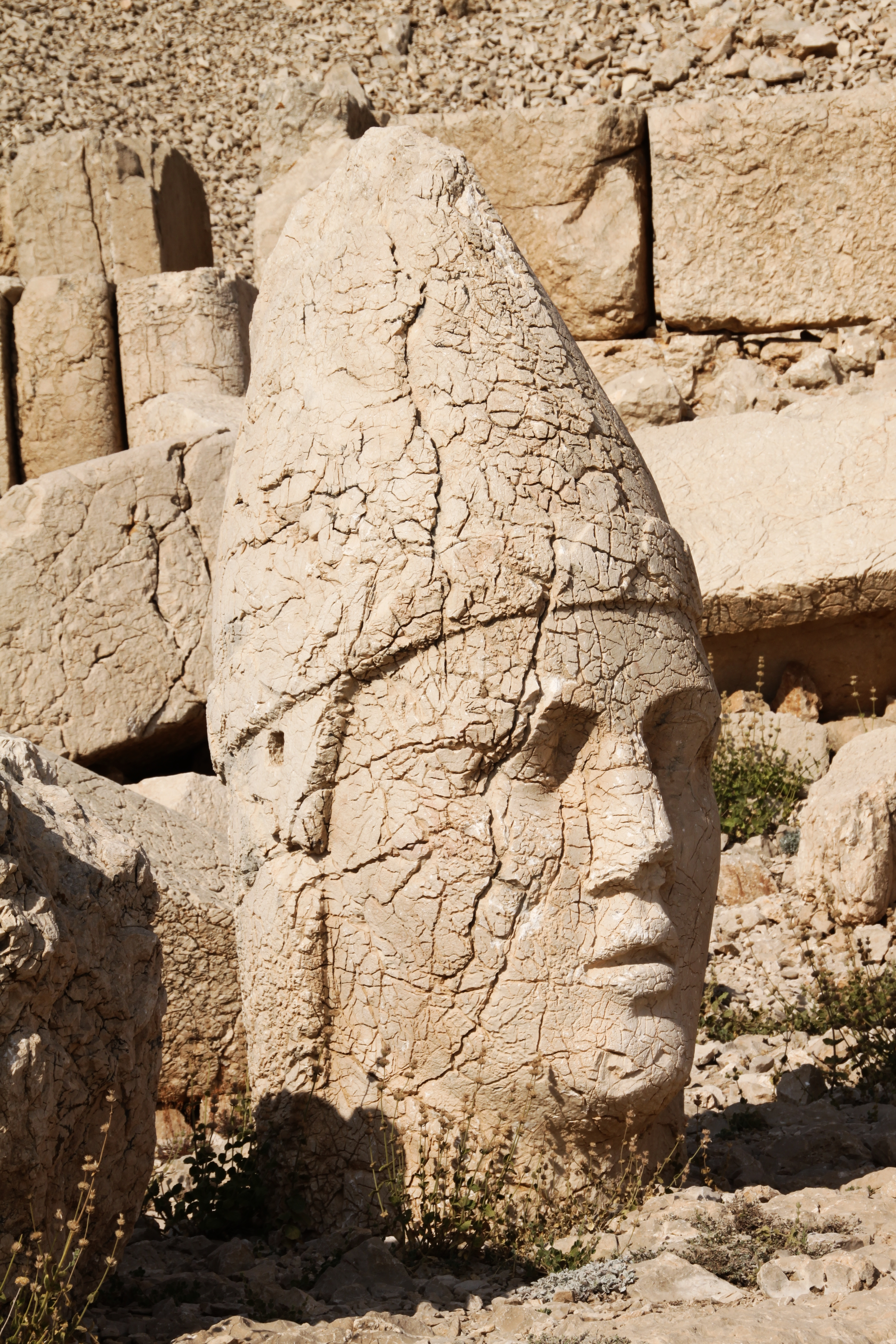 Mount Nemrut - West Terrace: Antiochus I Theos of Commagene Nemrut Tümülüsü Gods of Commagene